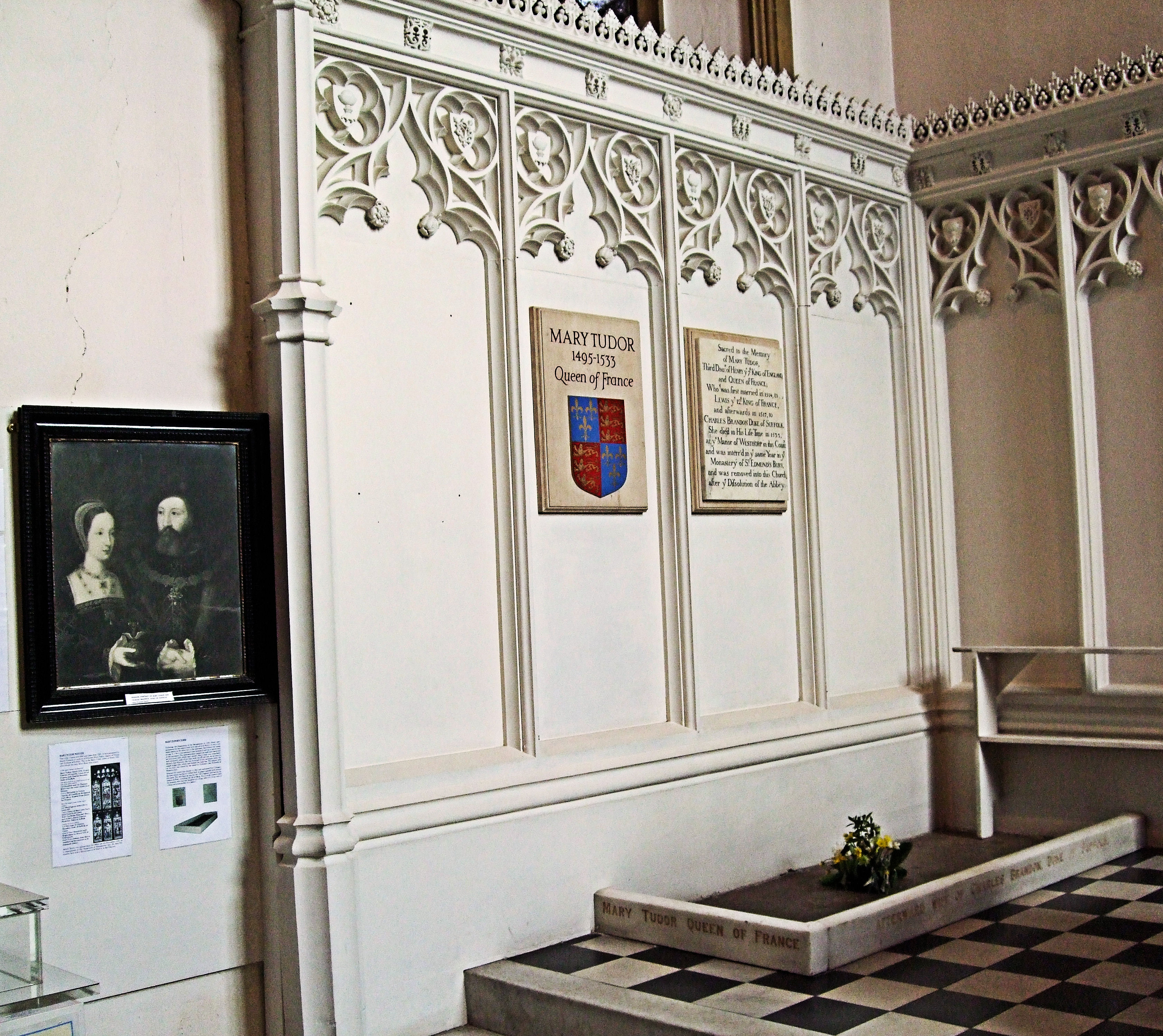 Mary died at Westhorpe Hall, Westhorpe, Suffolk on 25 June 1533 and was buried in the abbey in Bury St Edmonds, Suffolk. The abbey was destroyed during the Dissolution of the Monasteries and Mary’s remains were moved to St. Mary’s Church in Bury St Edmunds. from Flickr album "Bury St Edmunds" by Jim Linwood from London